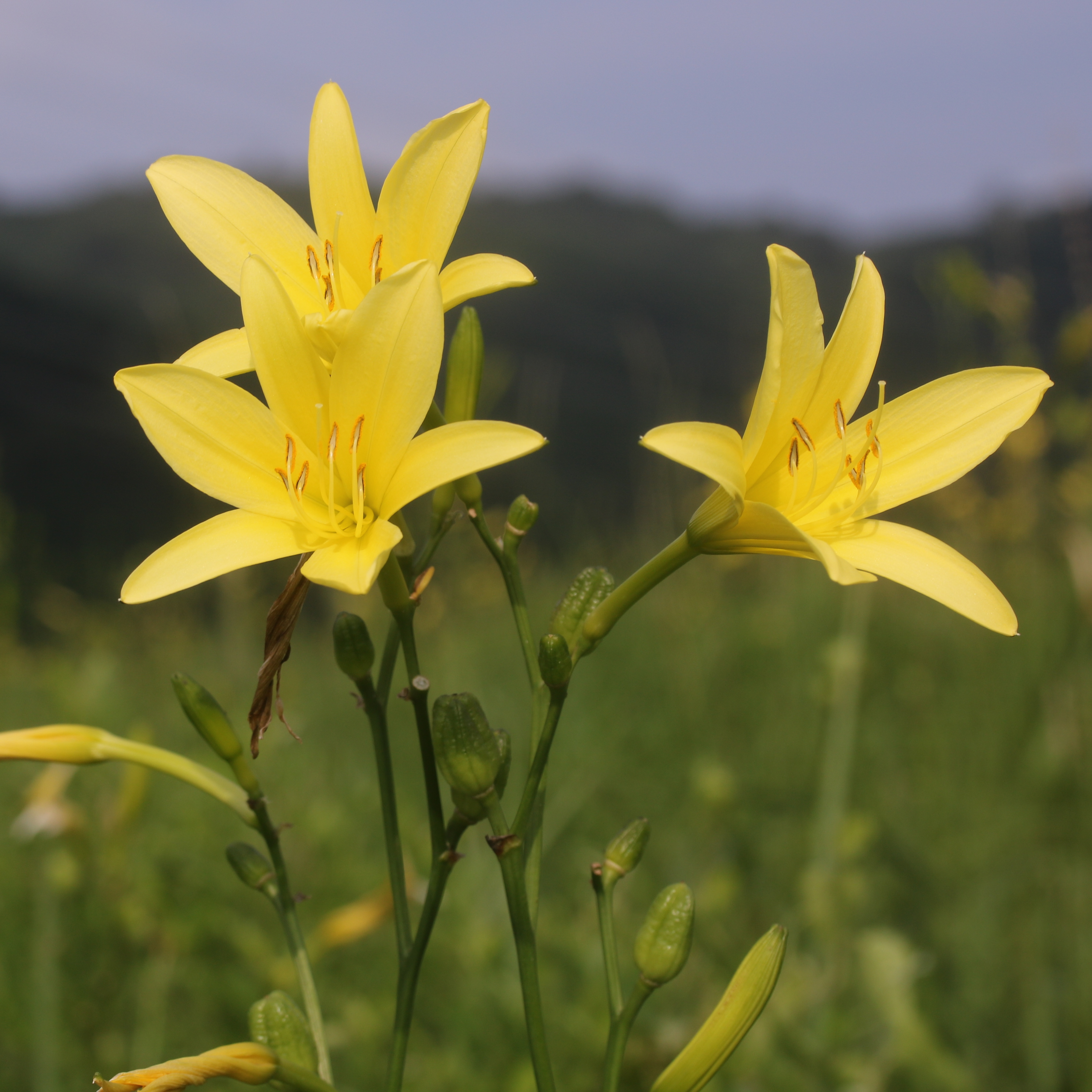 Hemerocallis vespertina in Mount Ibuki, Maibara, Shiga prefecture, Japan.